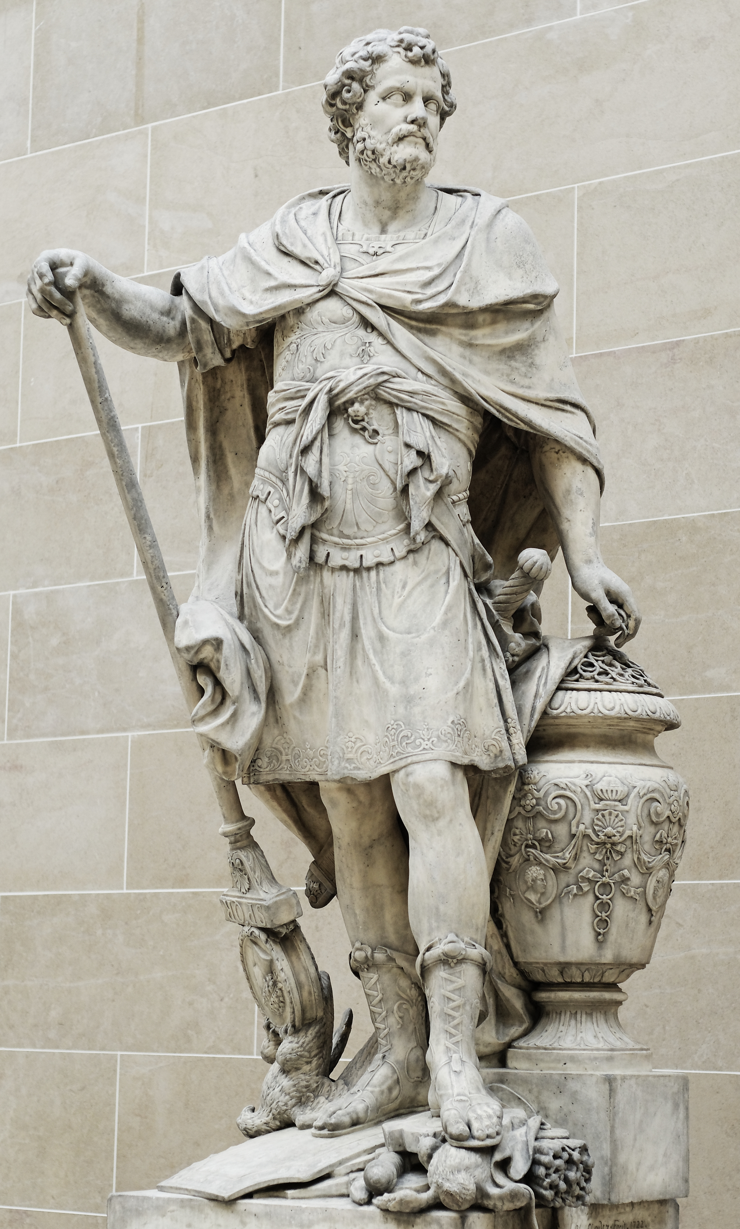 Hannibal Barca counting the rings of the Roman knights killed at the Battle of Cannae (216 BC). Marble, 1704.